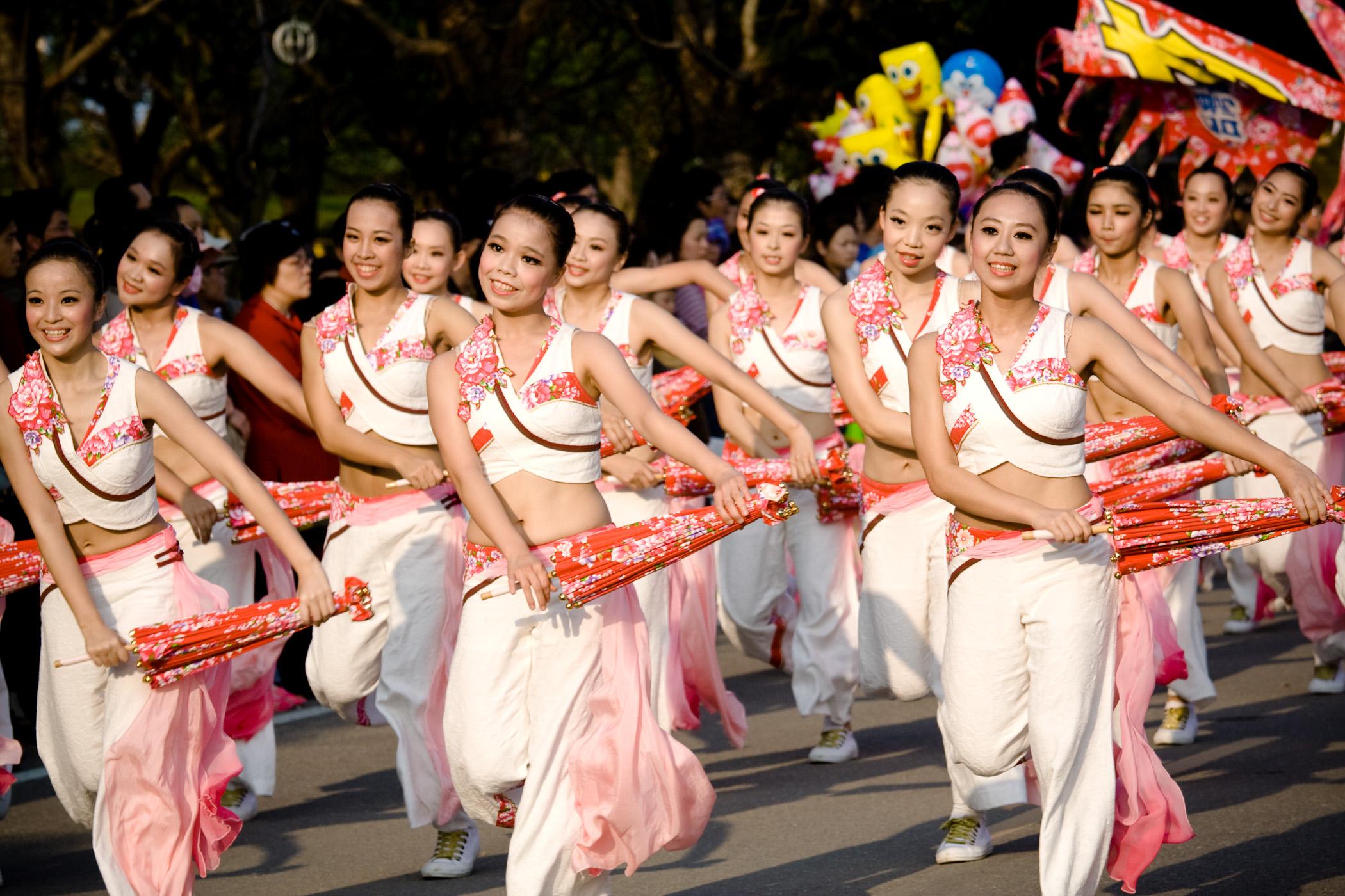 20th Taiwan Lantern Festival 2009 中文（台灣）: 第二十屆臺灣燈會 在宜蘭 2009 中華藝術學校索組成台灣最夯隊伍的街舞表演